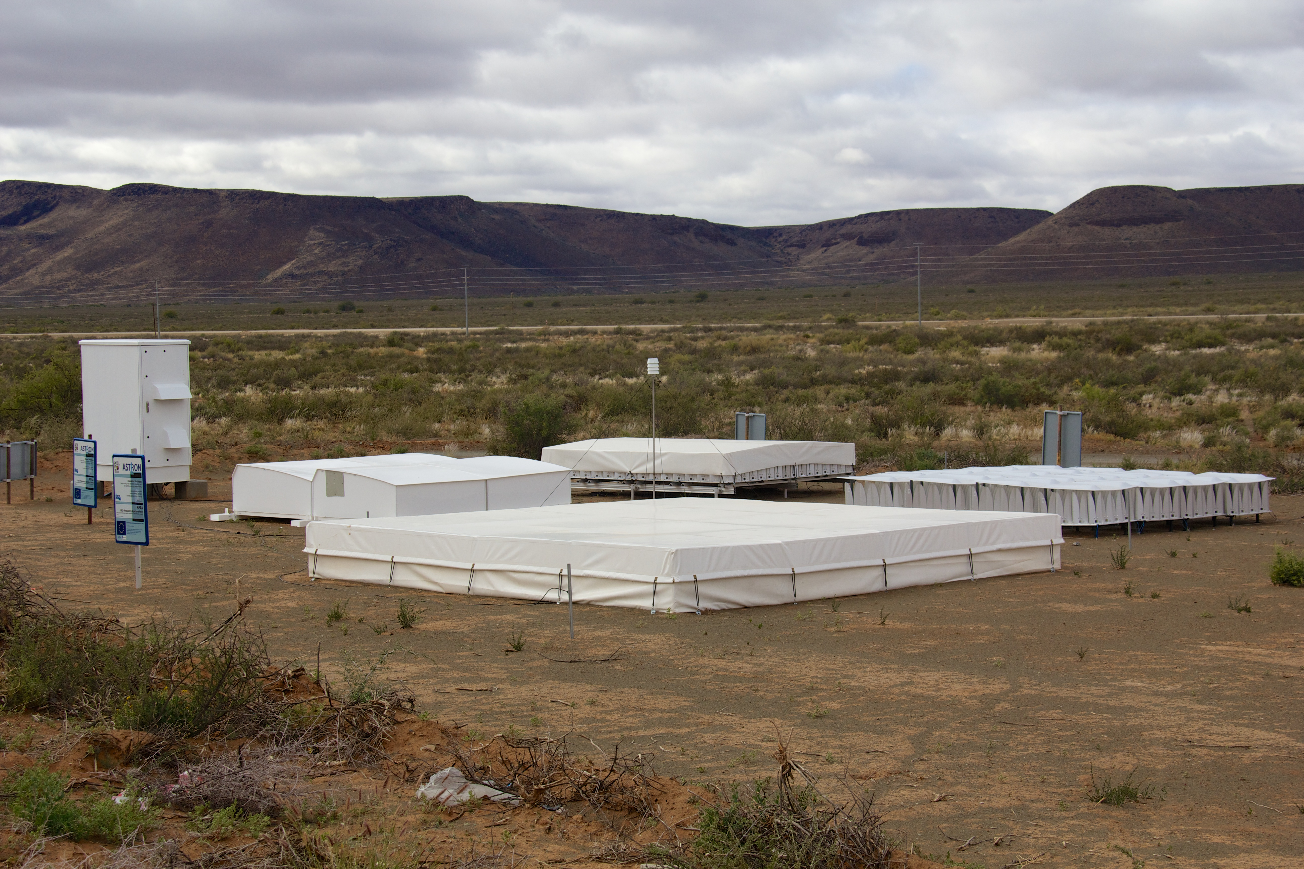 Astron SKA mid frequency aperture array - environmental test station of different design concepts 2013. Square Kilometre Array site, north of Carnarvon, Northern Cape, South Africa.